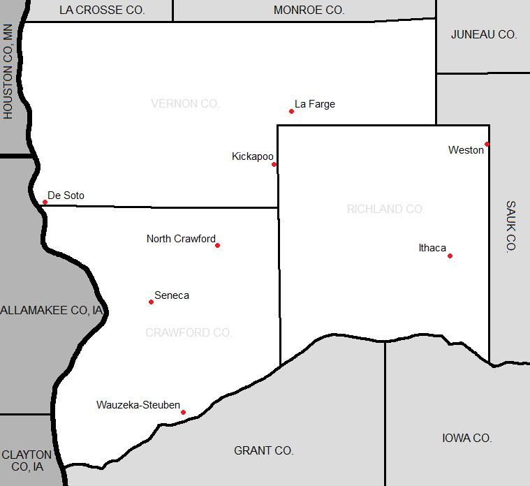 Map showing the locations of Ridge & Valley Conference schools as of the 2012-13 school year.